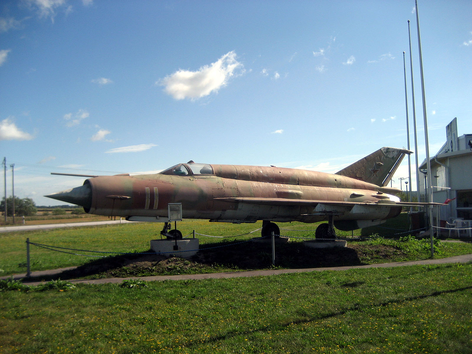 A former Soviet Air Force MiG-21SMT on display in Arboga, Sweden